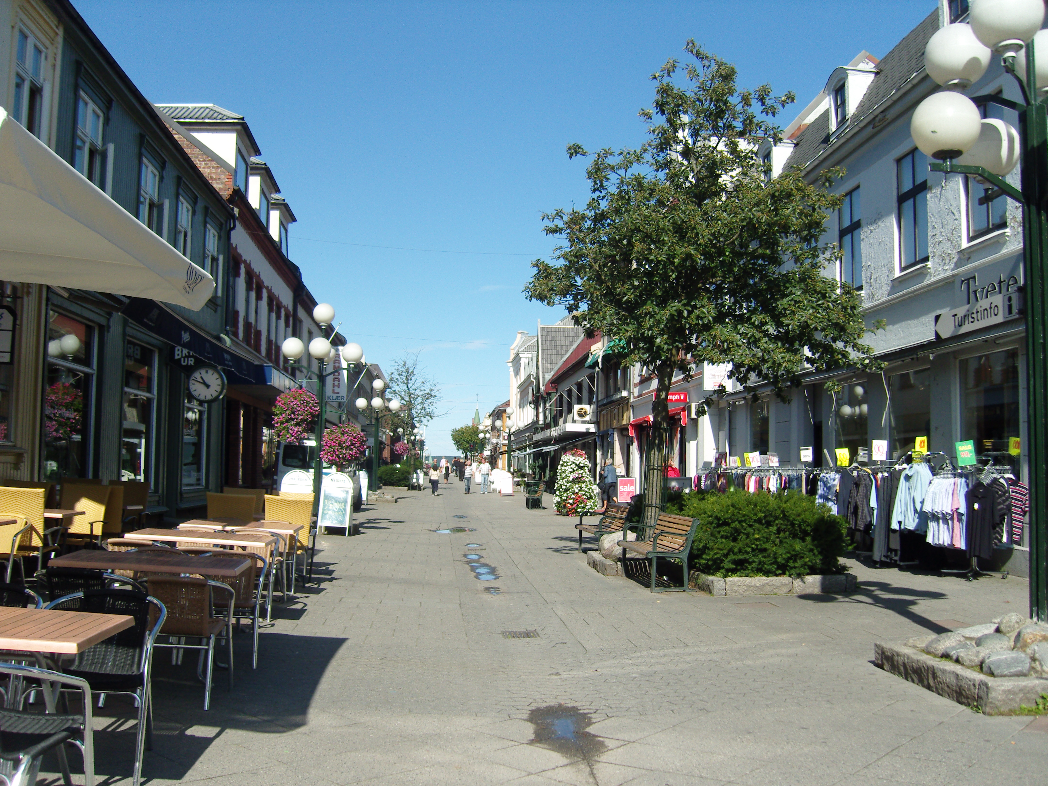 Pedestrian area of Sarpsborg